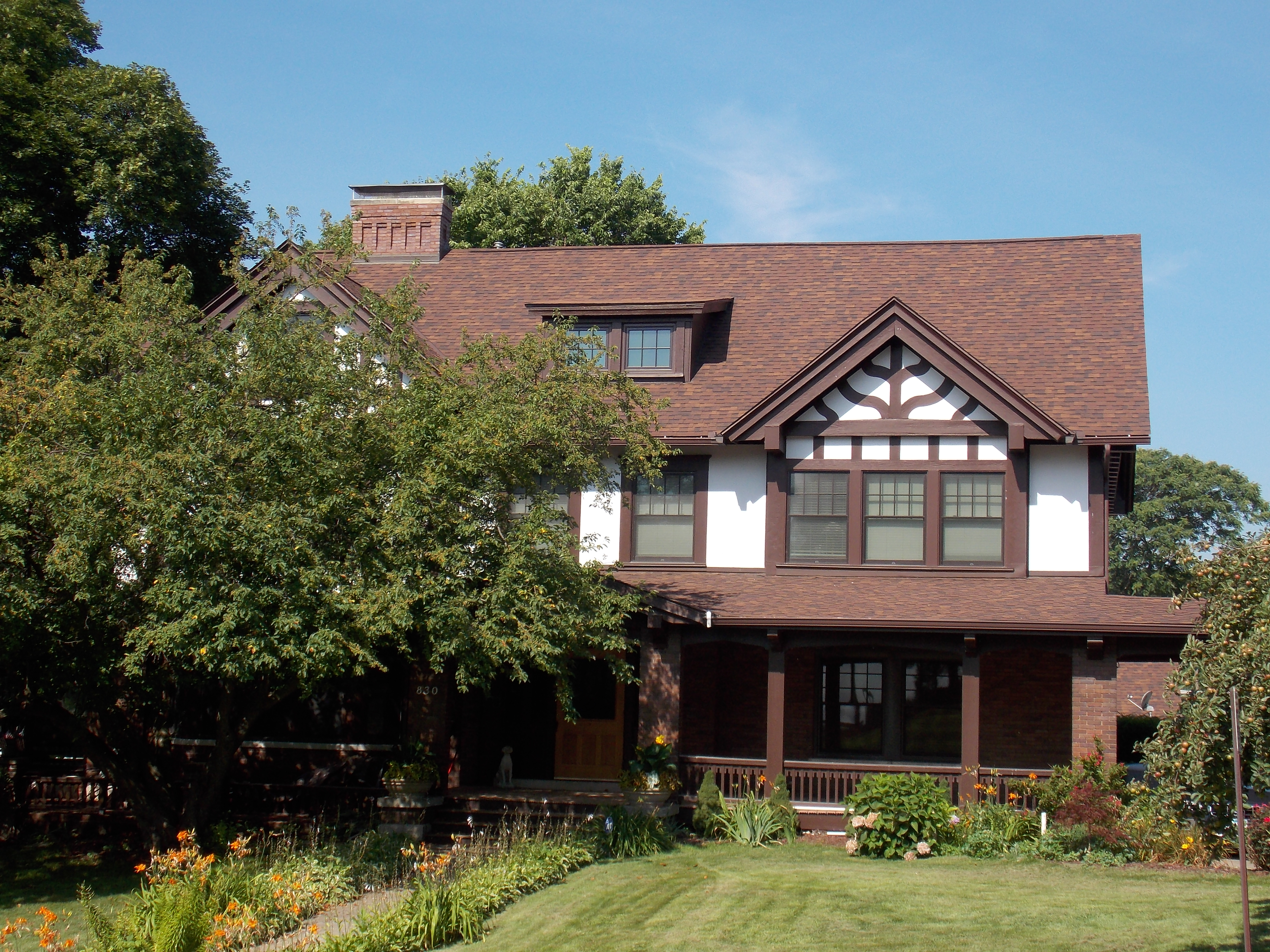 The Rowland Harned House is a contributing property in the Prospect Park Historic District in Davenport, Iowa.